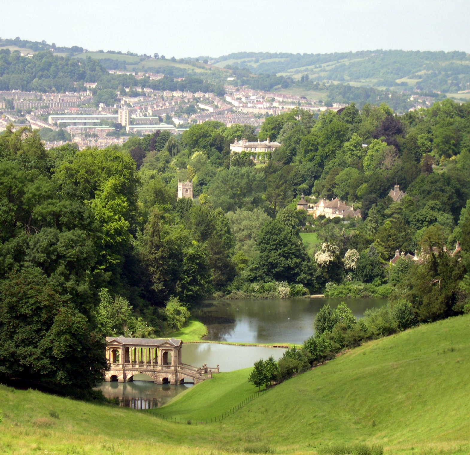 View from Prior Park, Bath over gardens and the Palladian Bridge towards the city of Bath. Photo by user